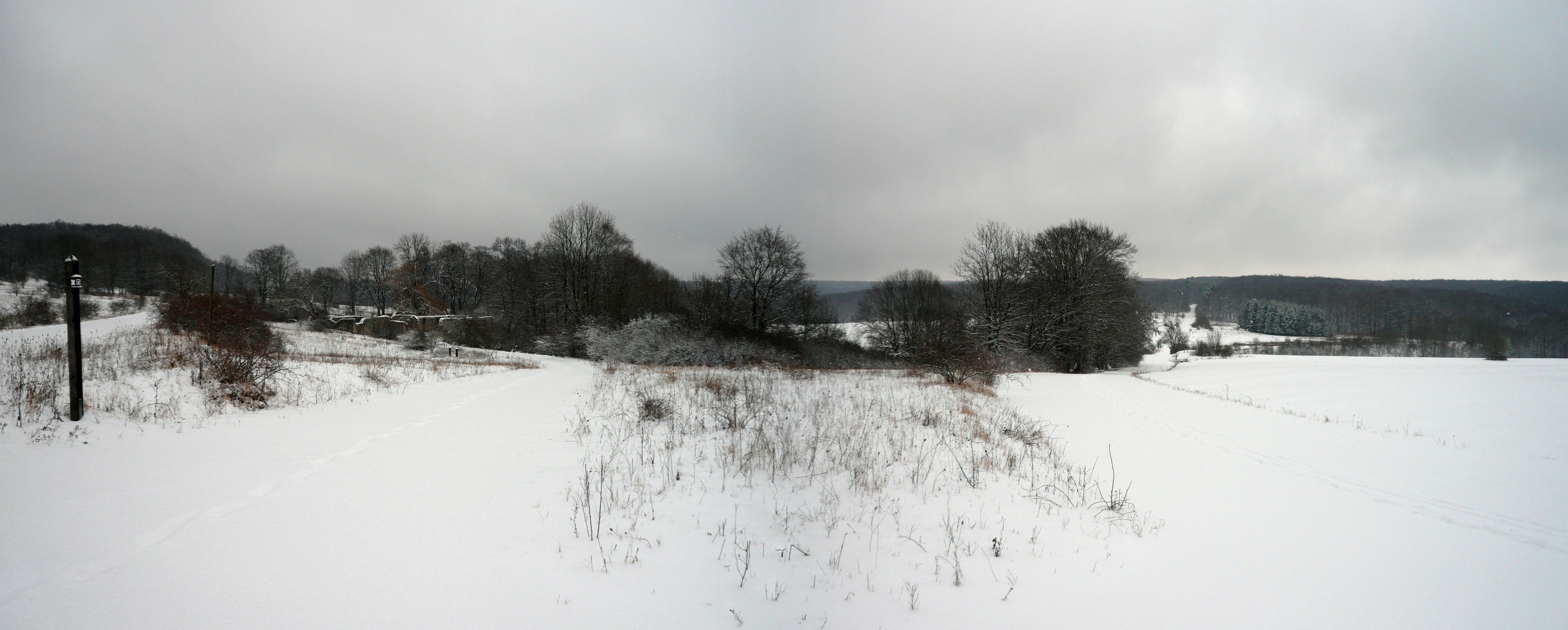 Kerstlingeröder Feld near Göttingen in winter